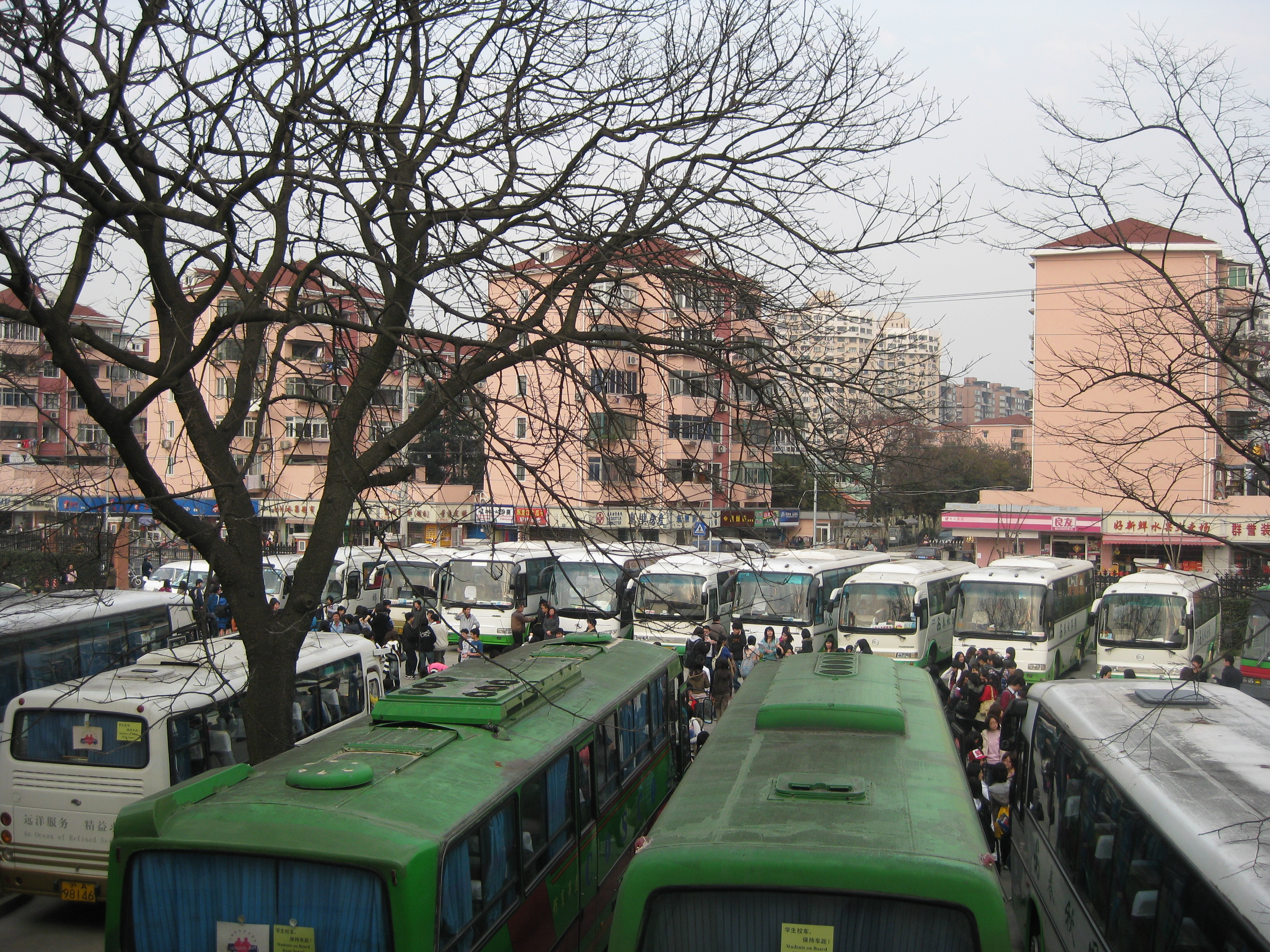 A picture of the SHSID Bus Court, taken from 2nd floor.